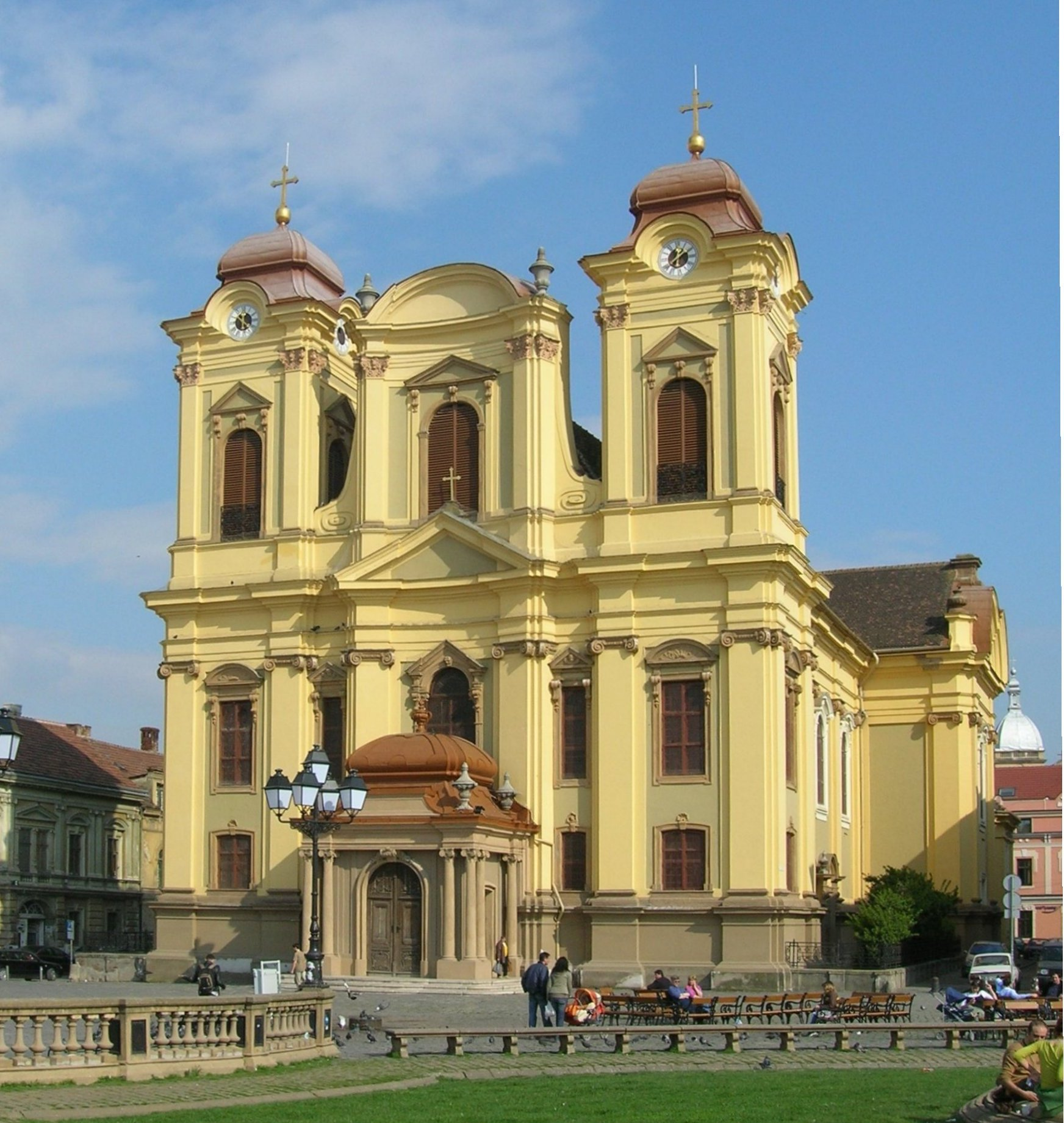 Roman Catholic Cathedral (The Dome) on Piaţa Unirii in Timişoara (Romania)